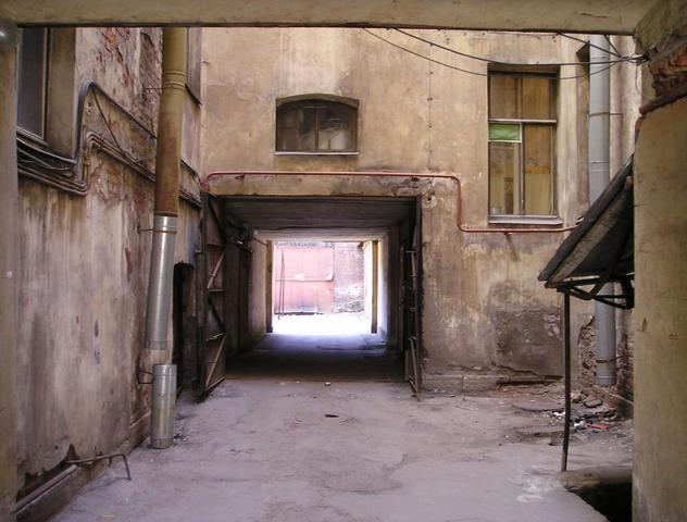 Shaft-yard. Saint-Petersburg.